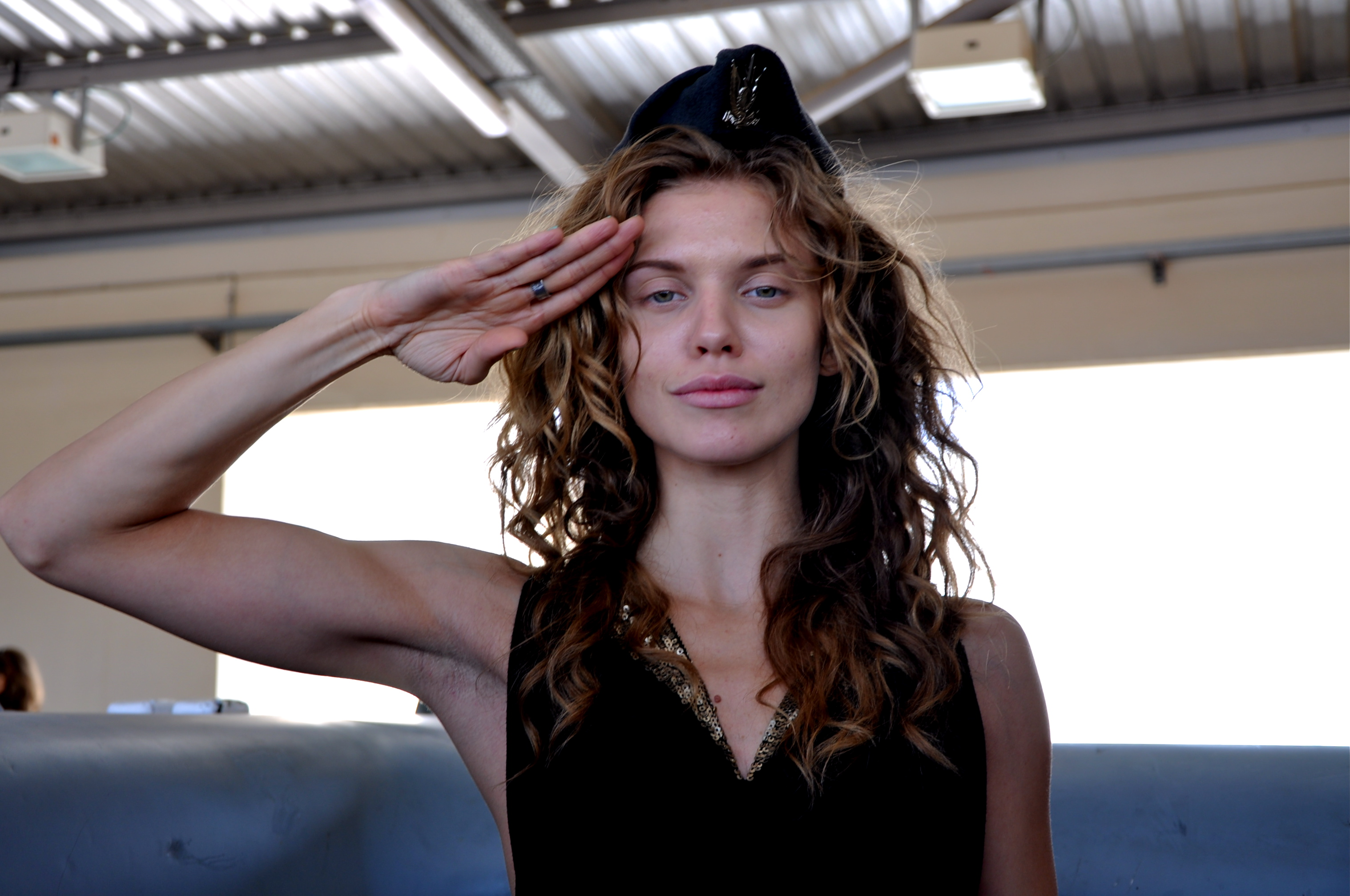 Several actors and celebrities visited the Palmachim Air Force base today, during a visit to Israel. AnnaLynne McCord ("90210", "Nip/Tuck"): "I wanted to come here and really understand what's happening in Israel." The Israel Defense Forces Facebook The Israel Defense Forces blog The Israel Defense Forces website Follow us on Twitter